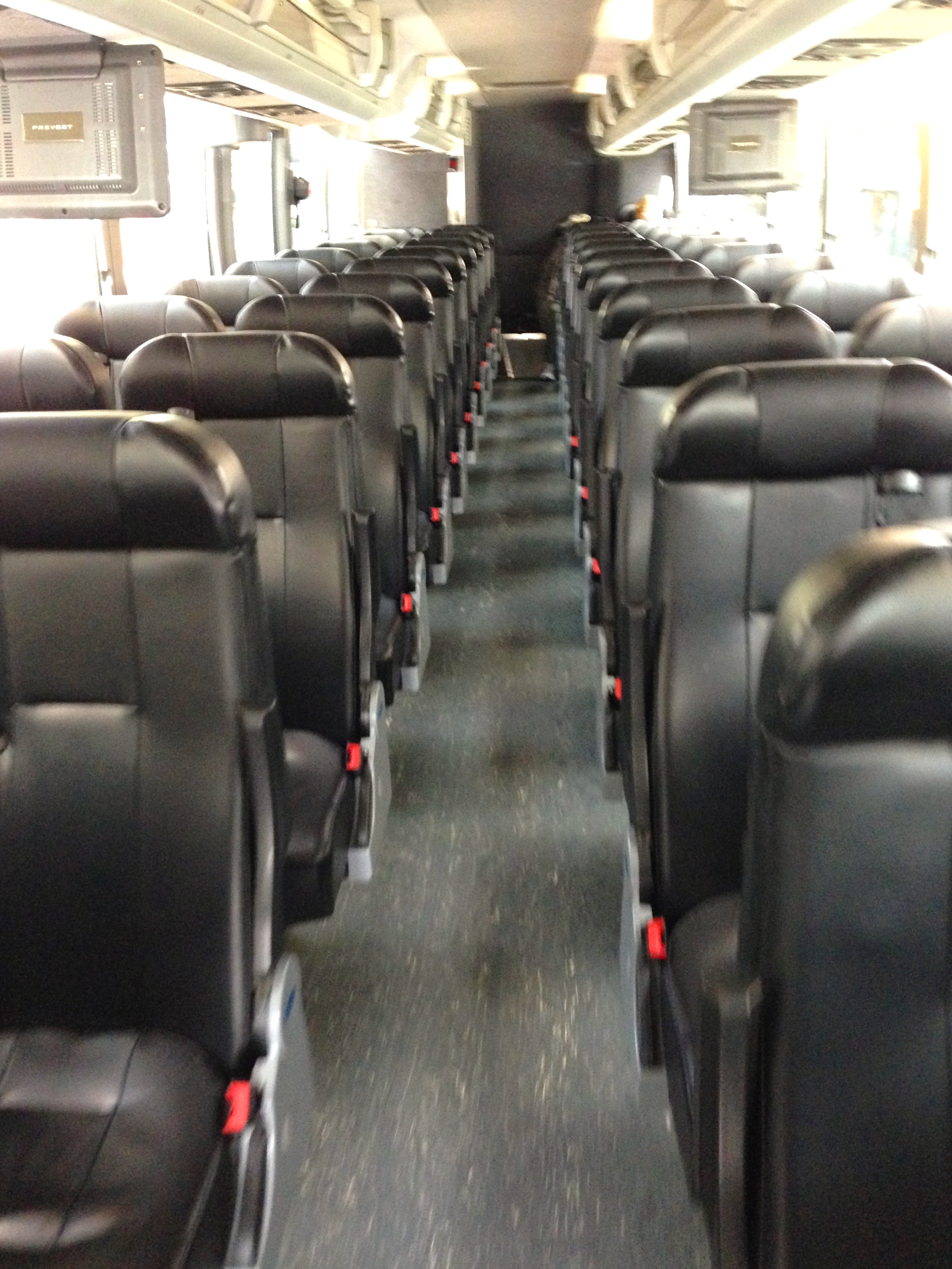 The interior of BoltBus #0681, a Prevost X3-45.